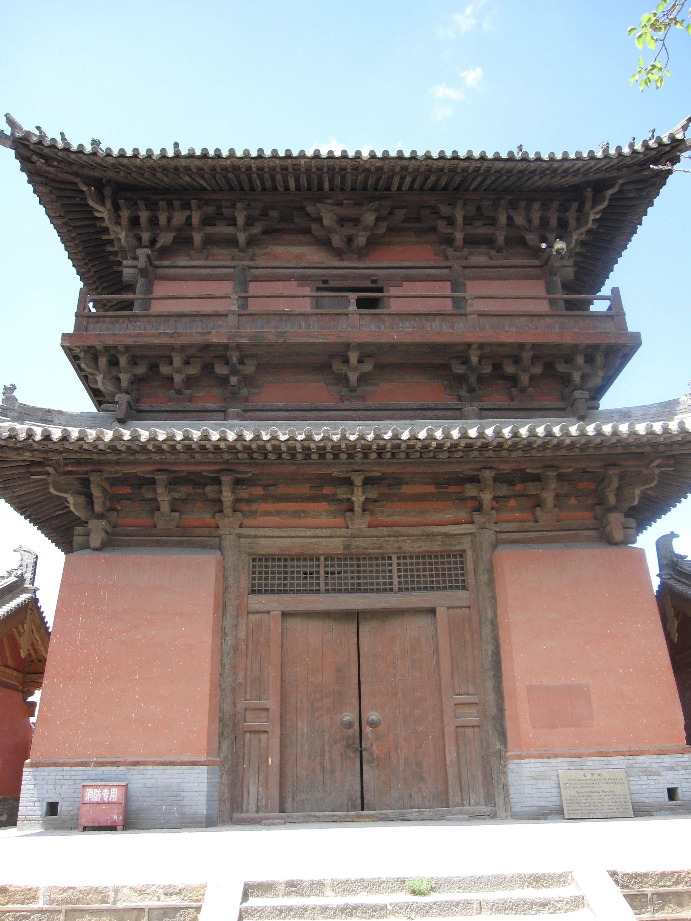 The Puxian Pavillion in Shanhua Temple.